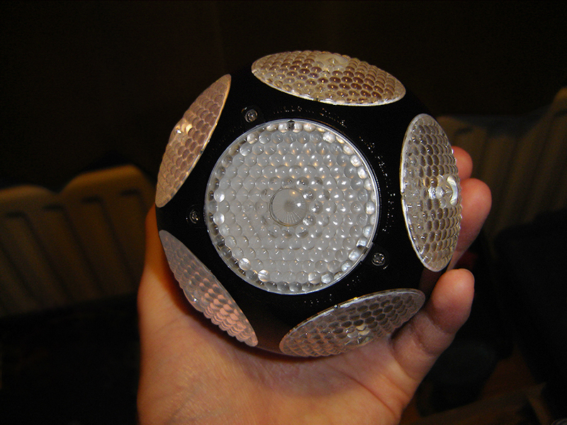 This a photograph of myself holding an Orbix puzzle toy in my hand.